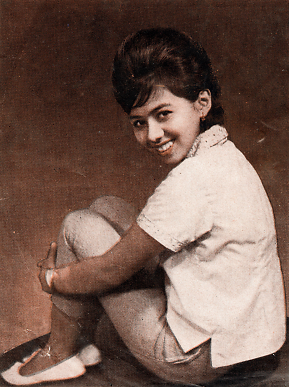 Lilis Suryani, Bintang Rekaman jang Tjemerlang, 1963. Portrait taken from obverse of EP Bintang Rekaman jang Tjemerlang